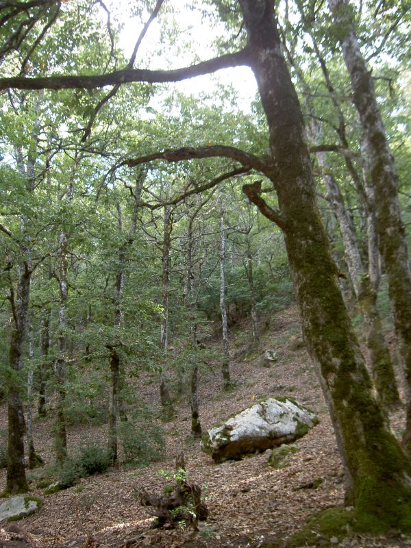 Aïn Draham forest, Northern Tunisia.